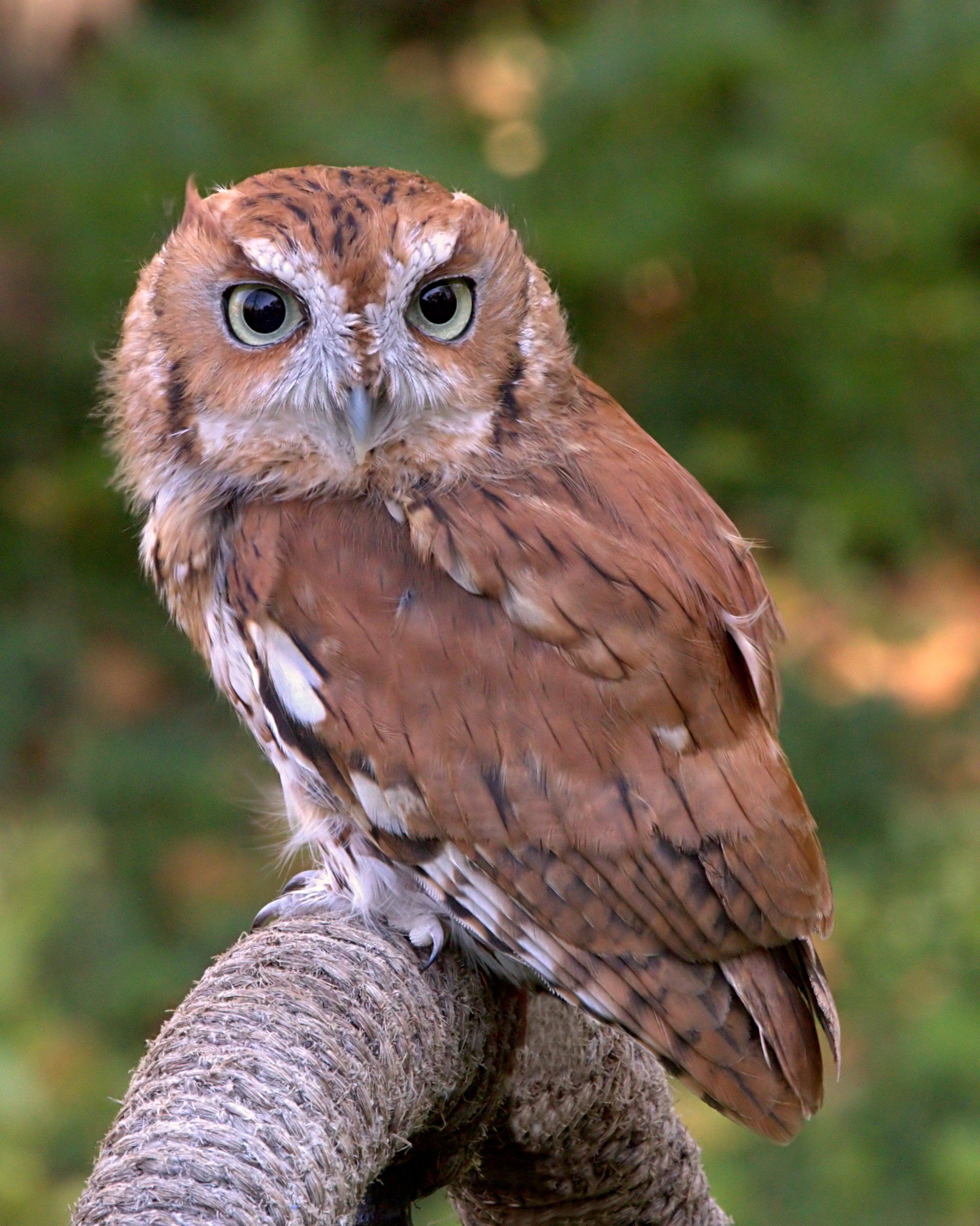 Rufous morph of the Eastern Screech Owl.